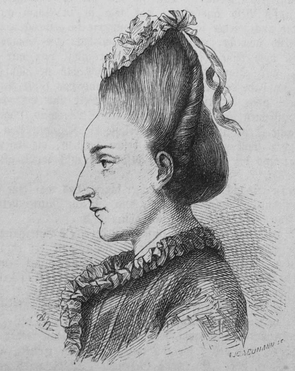 caption: "Goethe’s Schwester."